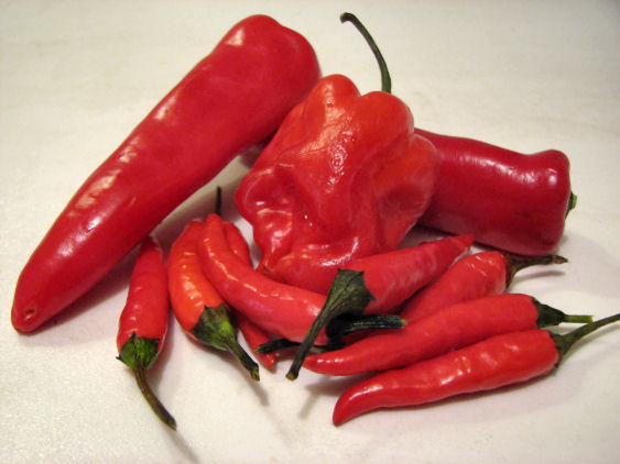 One of the many photos I took trying to get a good picture for this week's Photo Friday challenge, 'Heat'. This one contains three types of chilli: jalapeno, scotch bonnet, and bird's eye.